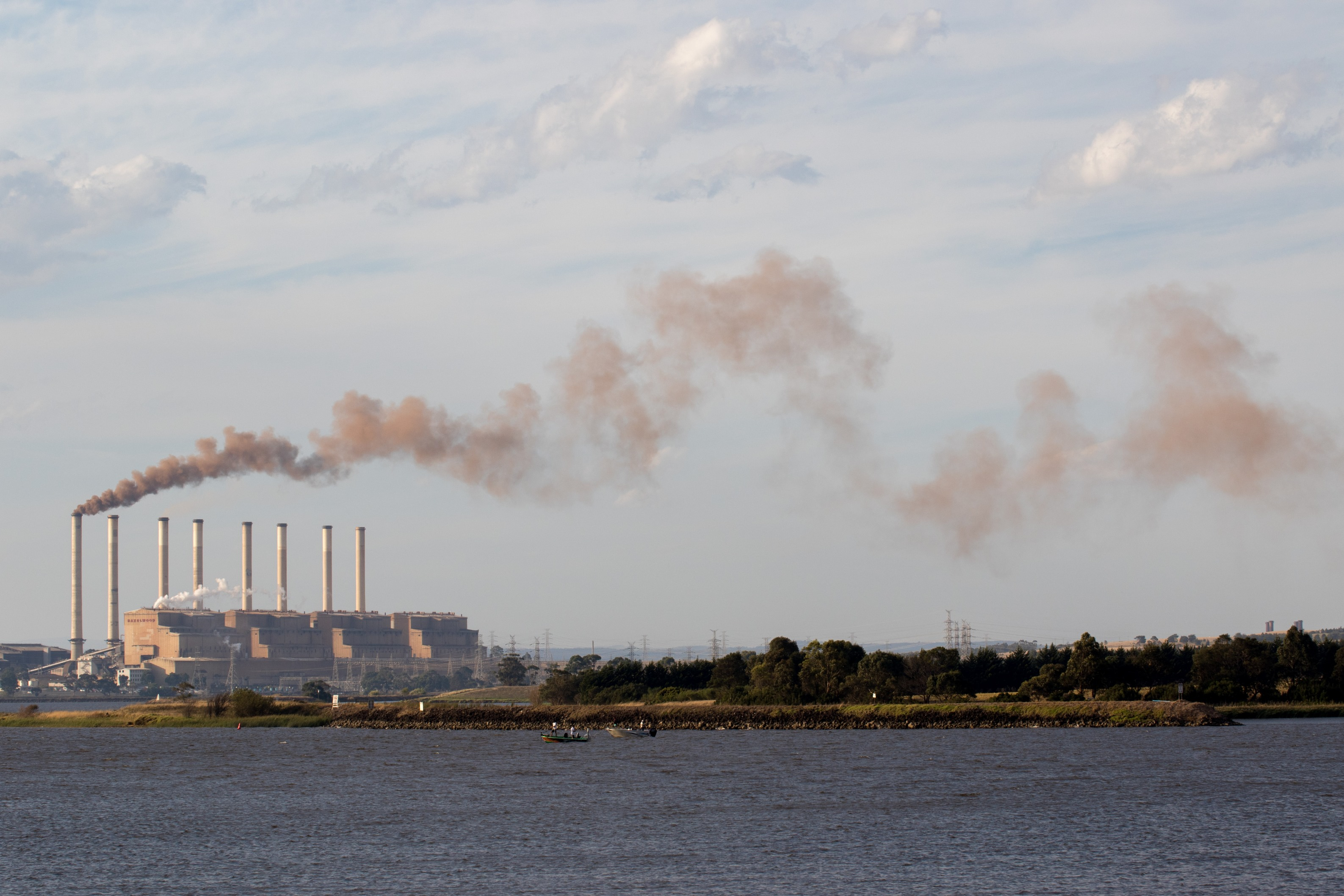 Hazelwood Power Station's final operational unit, Unit 1, being shut down for the last time before the station closes permanently.